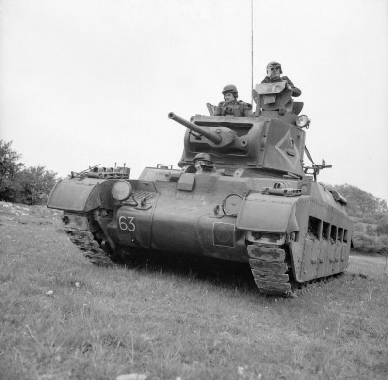 The British Army in the United Kingdom 1939-45 Matilda tank of 8th Armoured Division, 29 June 1941.